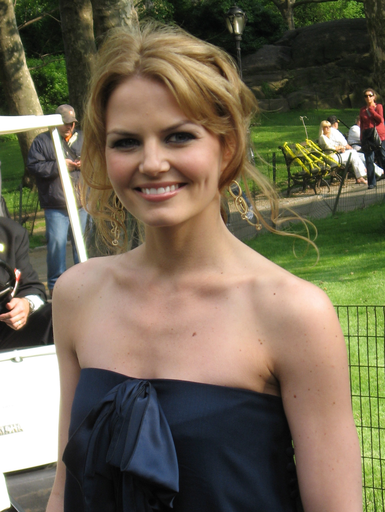 Jennifer Morrison at Fox Upfronts 2007.